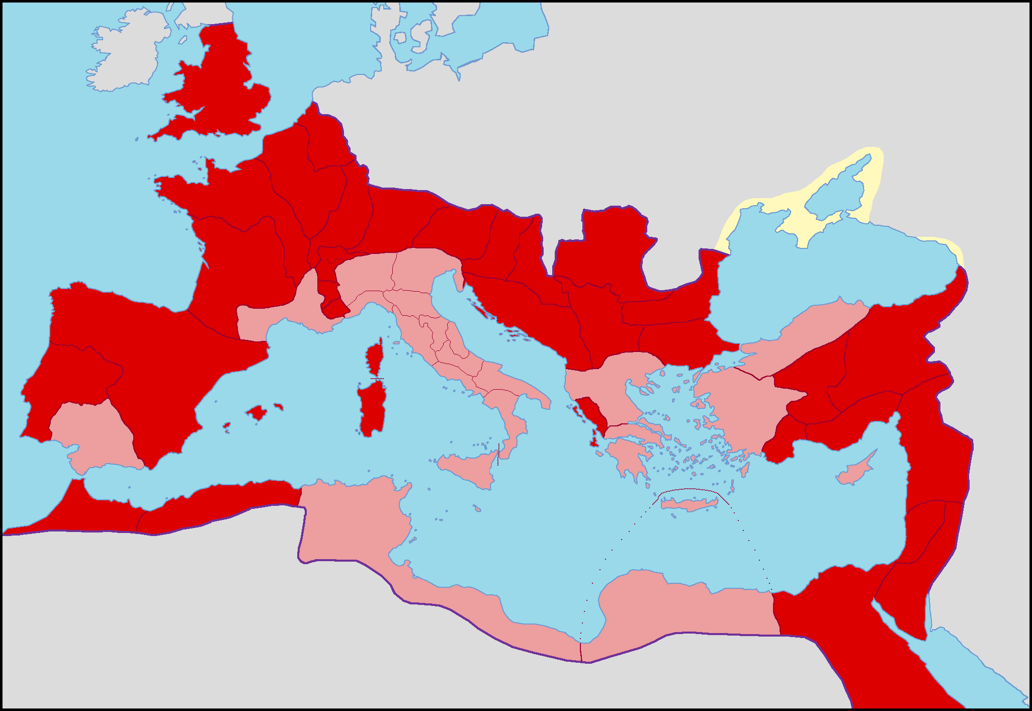 Map of the Roman Empire with differents colours for senatorial (pink) and imperial (red) provinces in 120 AD